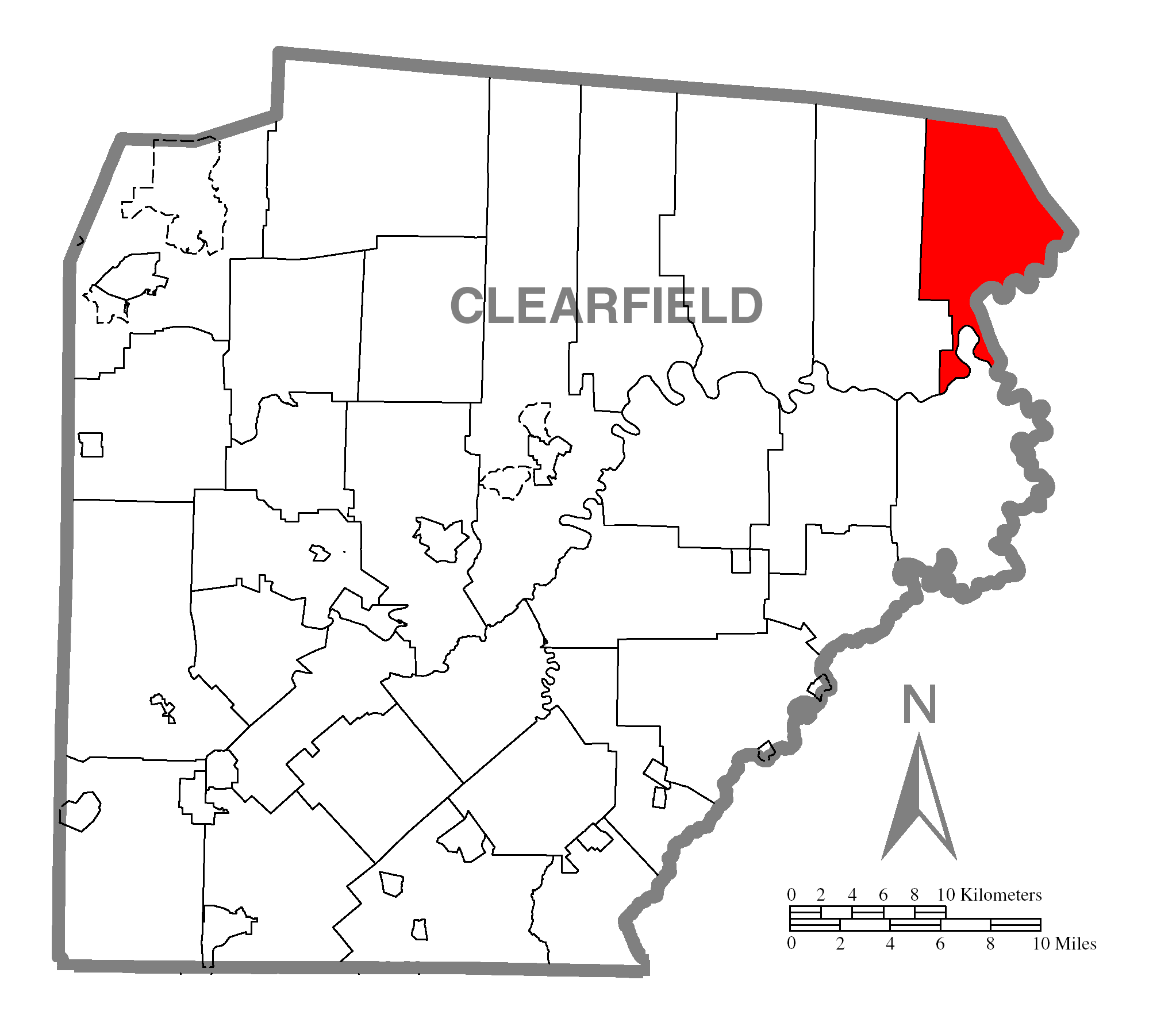 A map of Clearfield County showing Karthaus Township, Pennsylvania (alternate) highlighted on the map.